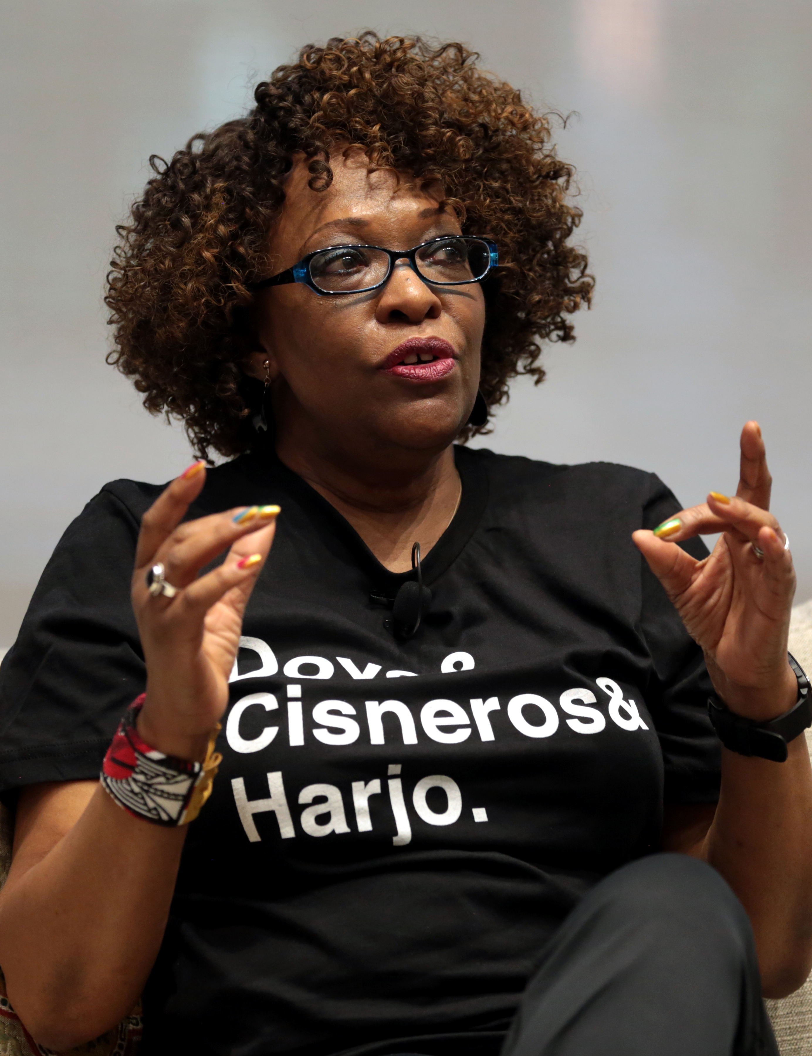 Rita Dove speaking at an event in Phoenix, Arizona.